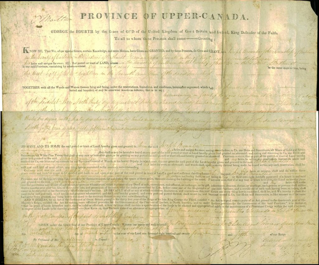 This is a land deed from March 20, 1824 for land in the province of upper canada.